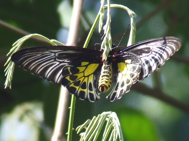 Female Southern Birdwing (Troides minos) nectaring